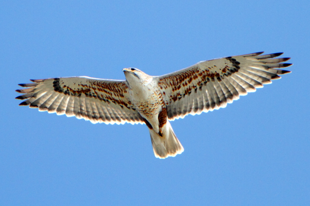 Ferruginous Hawk flying near Cambria, San Luis Obispo County, California, USA.